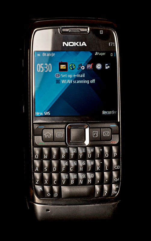 Nokia E71 against black background